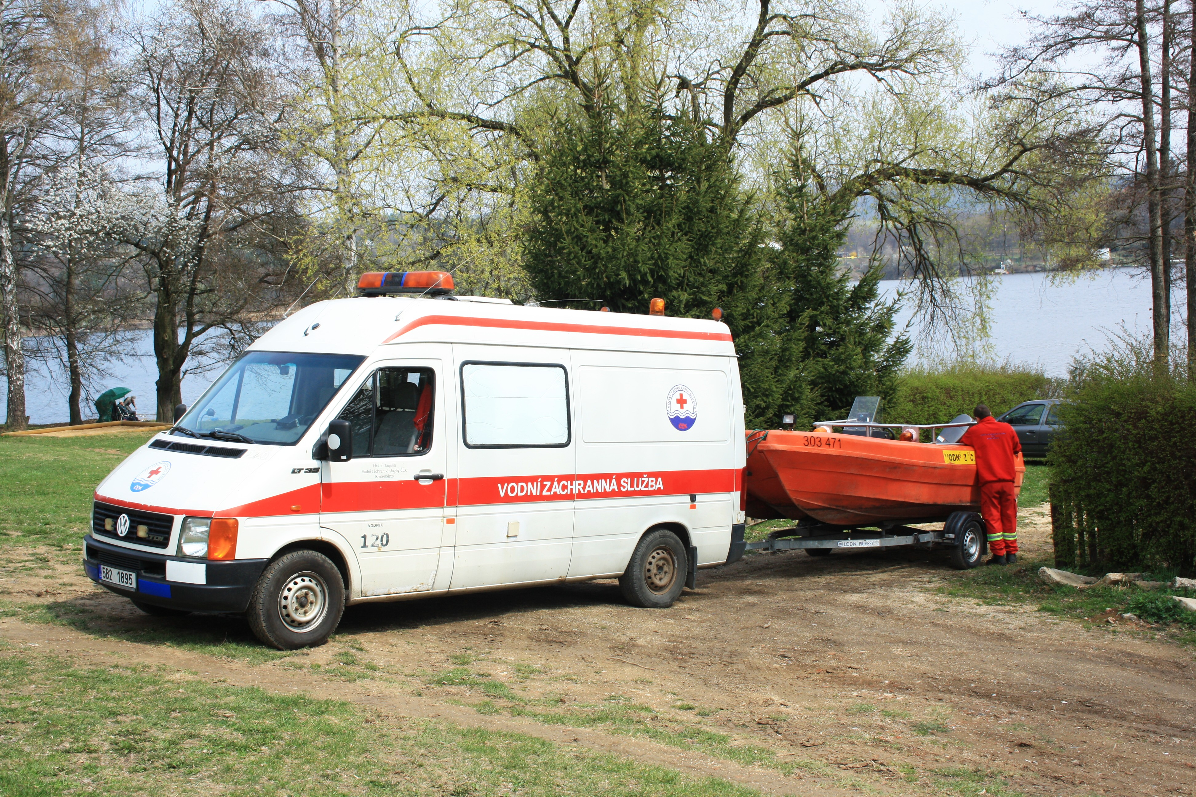 Water rescuers at Brno Reservoir, Brno, Czech Republic This photograph was taken with a DSLR from WMCZ's Camera grant.